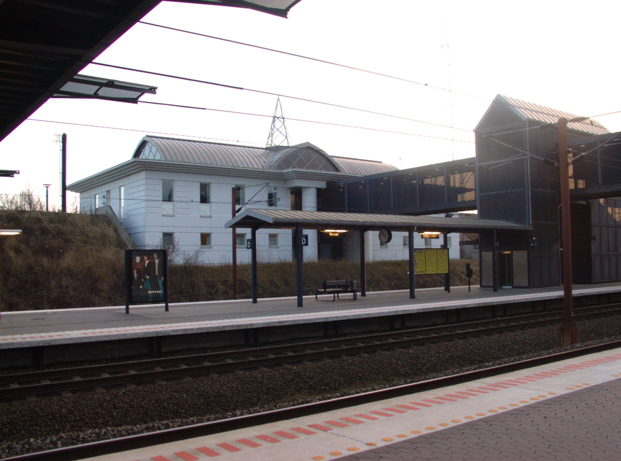 Korsør railroad station on Western Sealand in Denmark